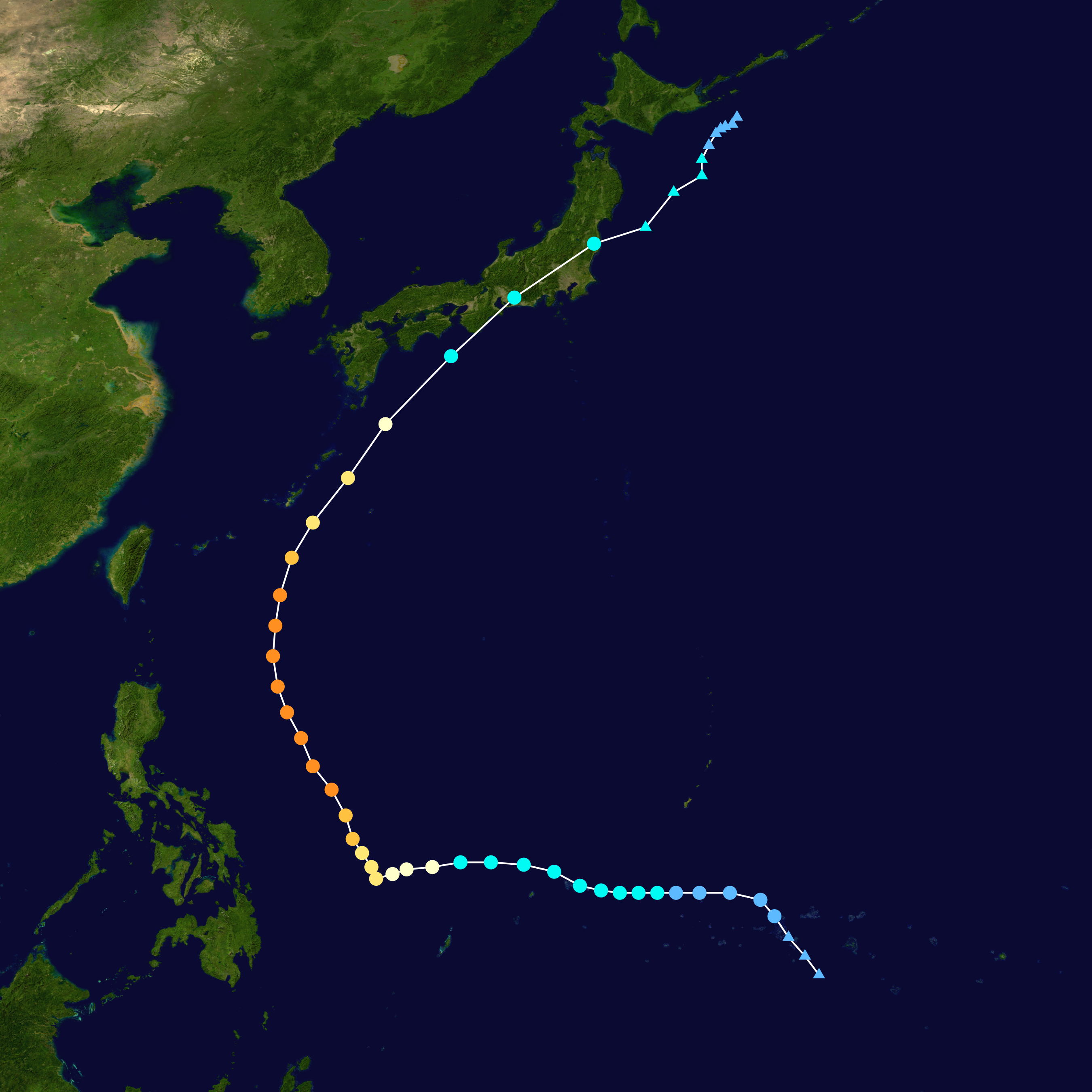 Track map of Typhoon Guchol of the 2012 Pacific typhoon season. The points show the location of the storm at 6-hour intervals. The colour represents the storm's maximum sustained wind speeds as classified in the Saffir–Simpson scale (see below), and the shape of the data points represent the nature of the storm, according to the legend below. Saffir–Simpson scale Tropical depression≤38 mph≤62 km/h Category 3111–129 mph178–208 km/h Tropical storm39–73 mph63–118 km/h Category 4130–156 mph209–251 km/h Category 174–95 mph119–153 km/h Category 5≥157 mph≥252 km/h Category 296–110 mph154–177 km/h Unknown Storm type Tropical cyclone Subtropical cyclone Extratropical cyclone / Remnant low / Tropical disturbance / Monsoon depression